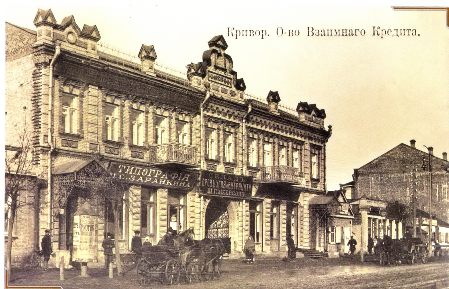 Kryvyi Rih Pochtovaya Street